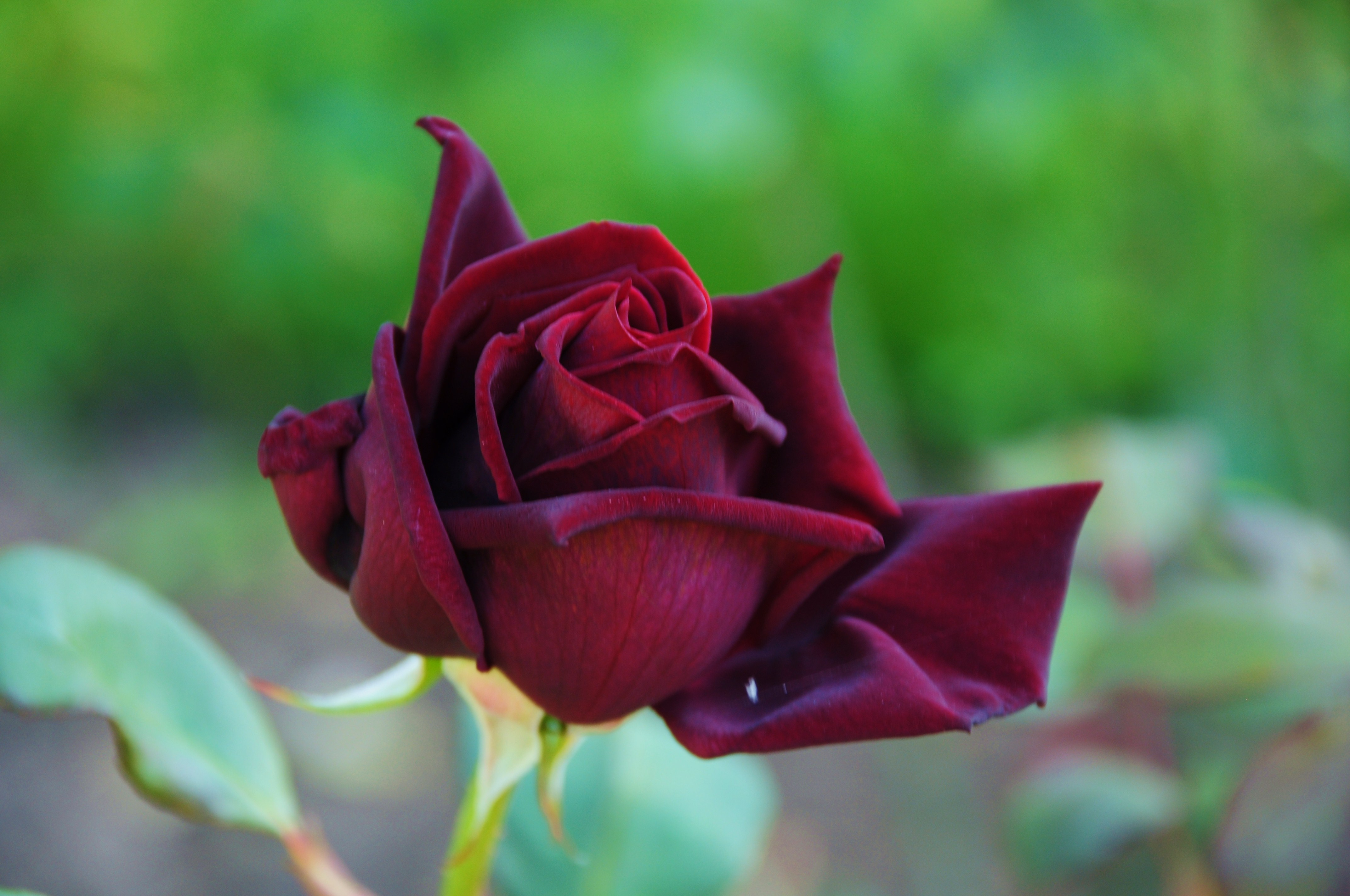 Rosarium Sangerhausen